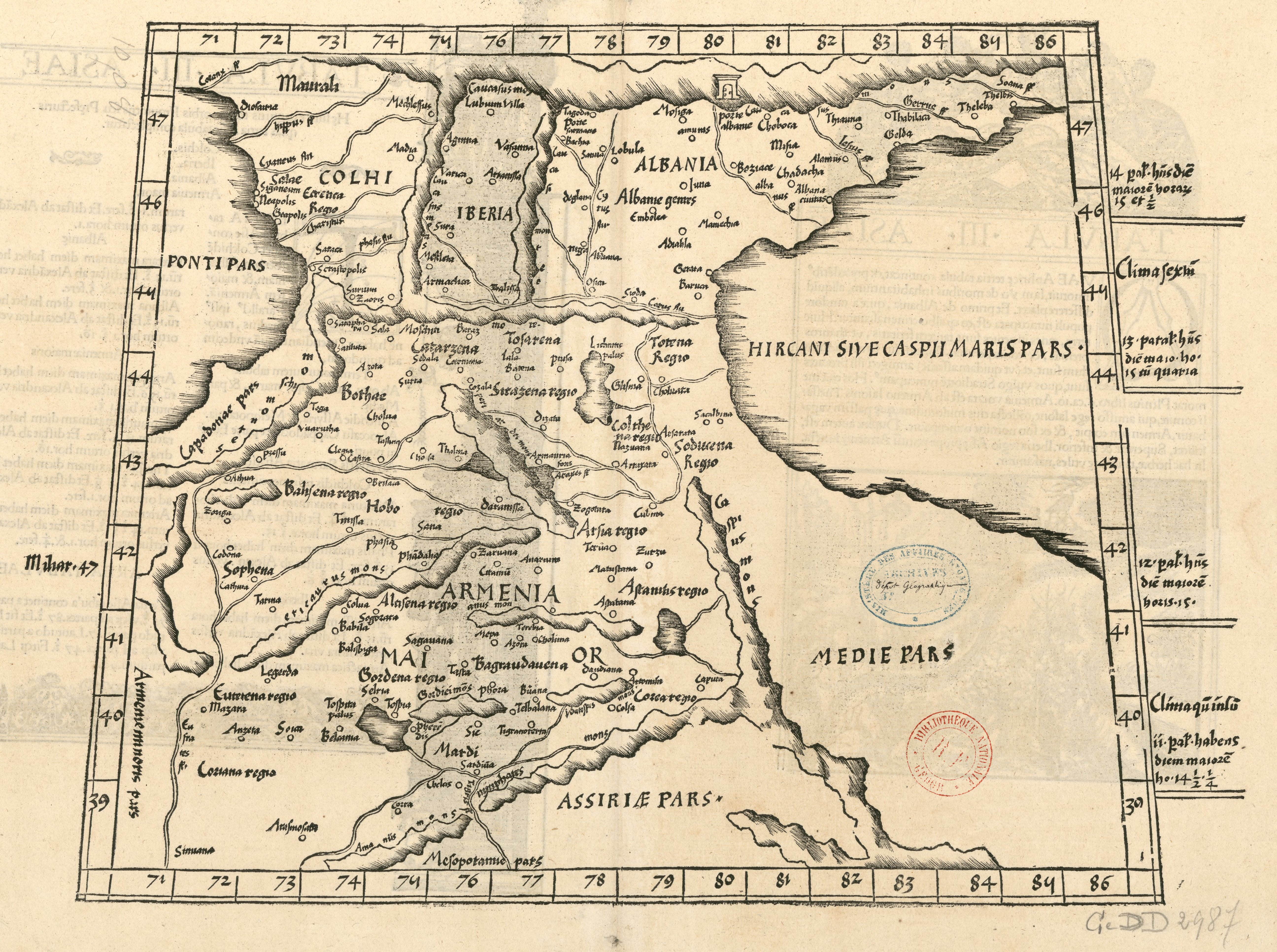 Asiae Tabula III : Colchis, Iberia, Albania, Armenia maor / [Ptolémée] Dimensions: Height: 37 cm (14.5″); Width: 51 cm (20″) dimensions QS:P2048,37U174728;P2049,51U174728